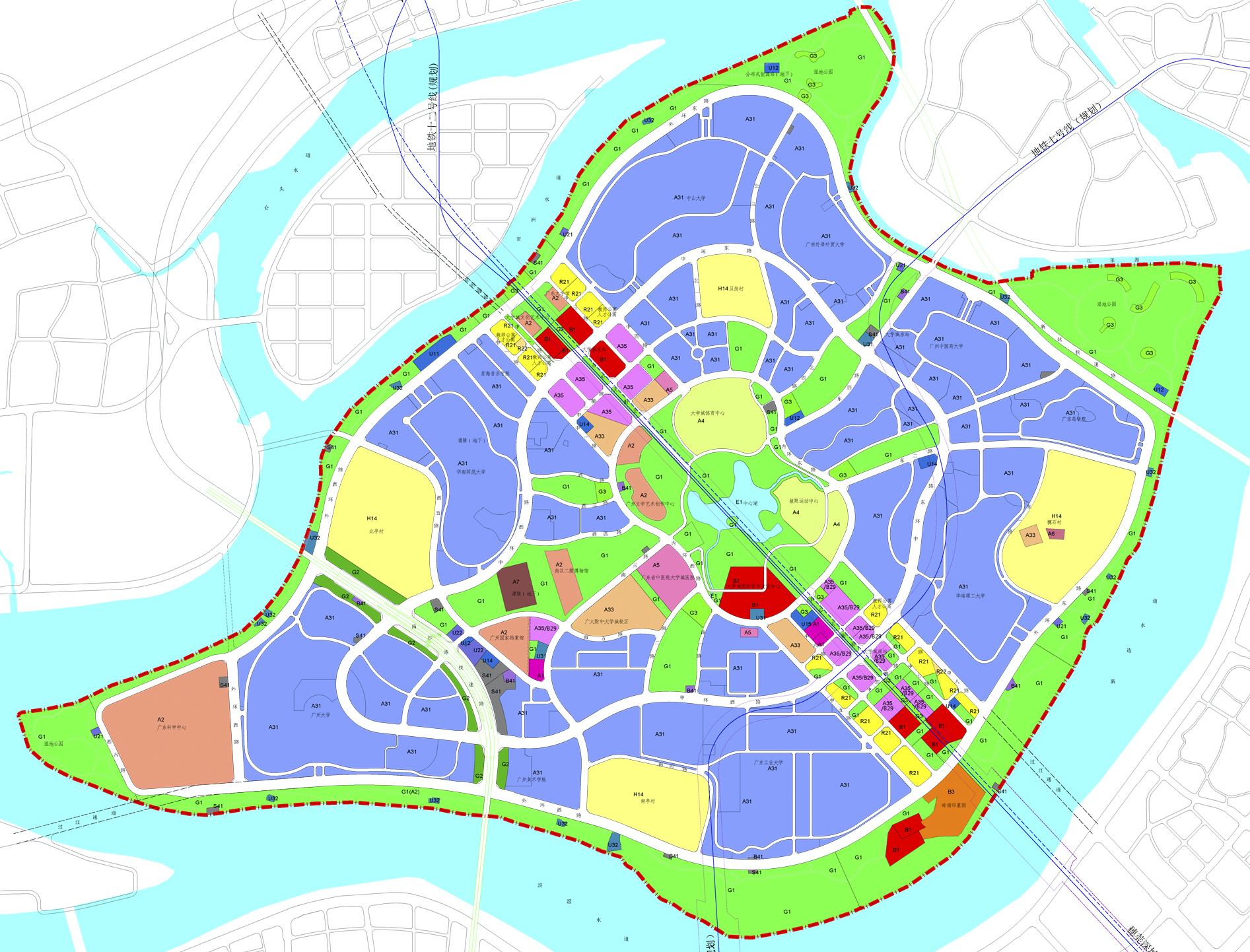 Map of Guangzhou Higher Education Mega Center (HEMC), 2015 ver.